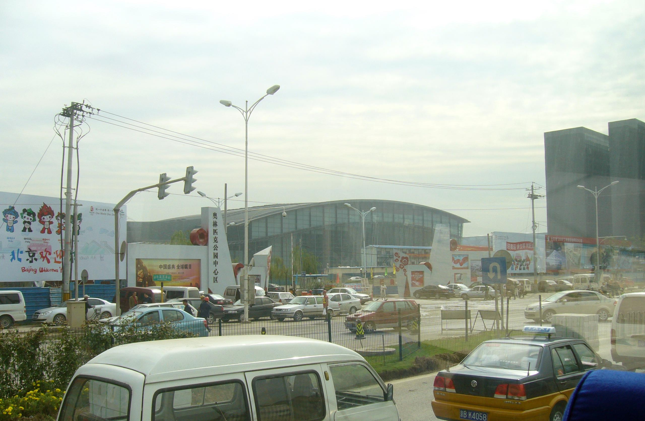 Traffic - Beijing